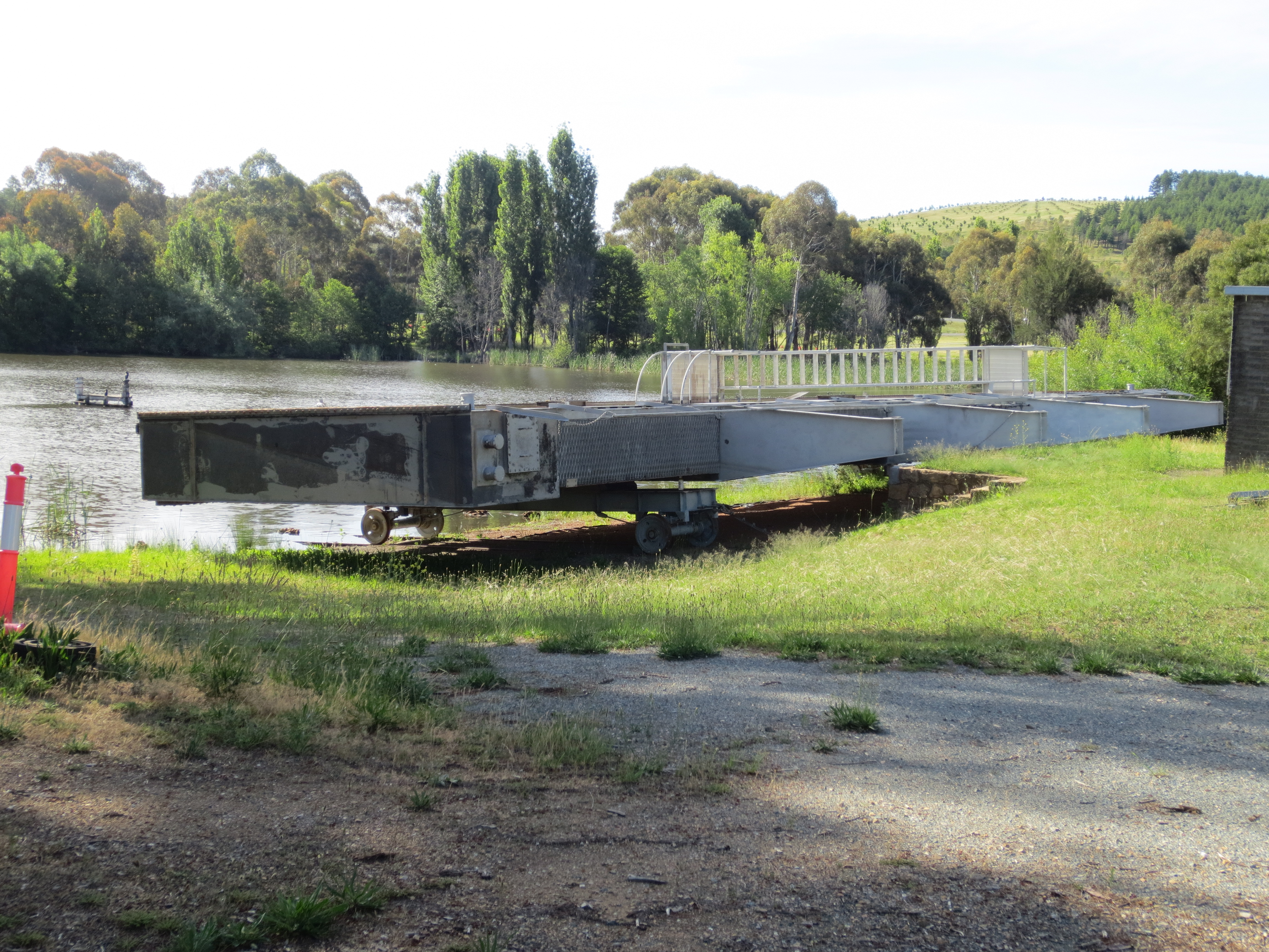 Spare dam gate for Scrivener Dam stored at Yarramundi Reach Lake Burley Griffin Canberra